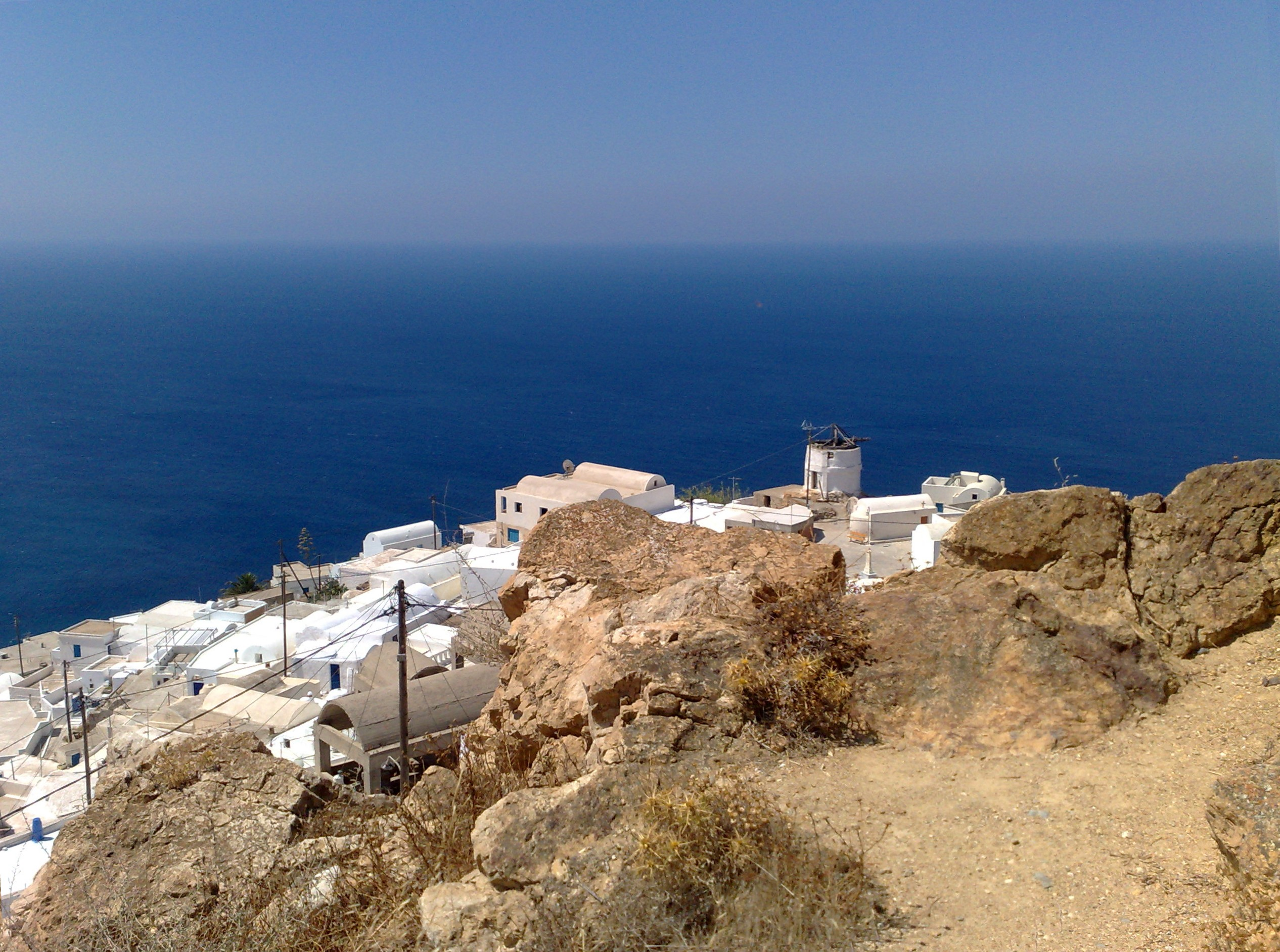 Anafi Village on Anafi Island, Cyclades, Greece